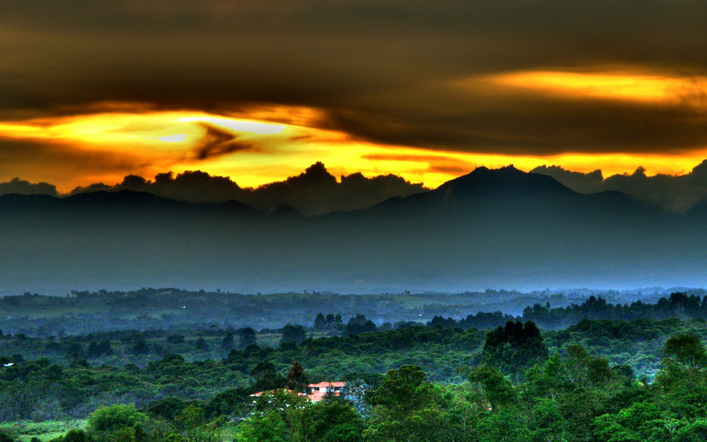 Sunset over Munchique's Mountain.